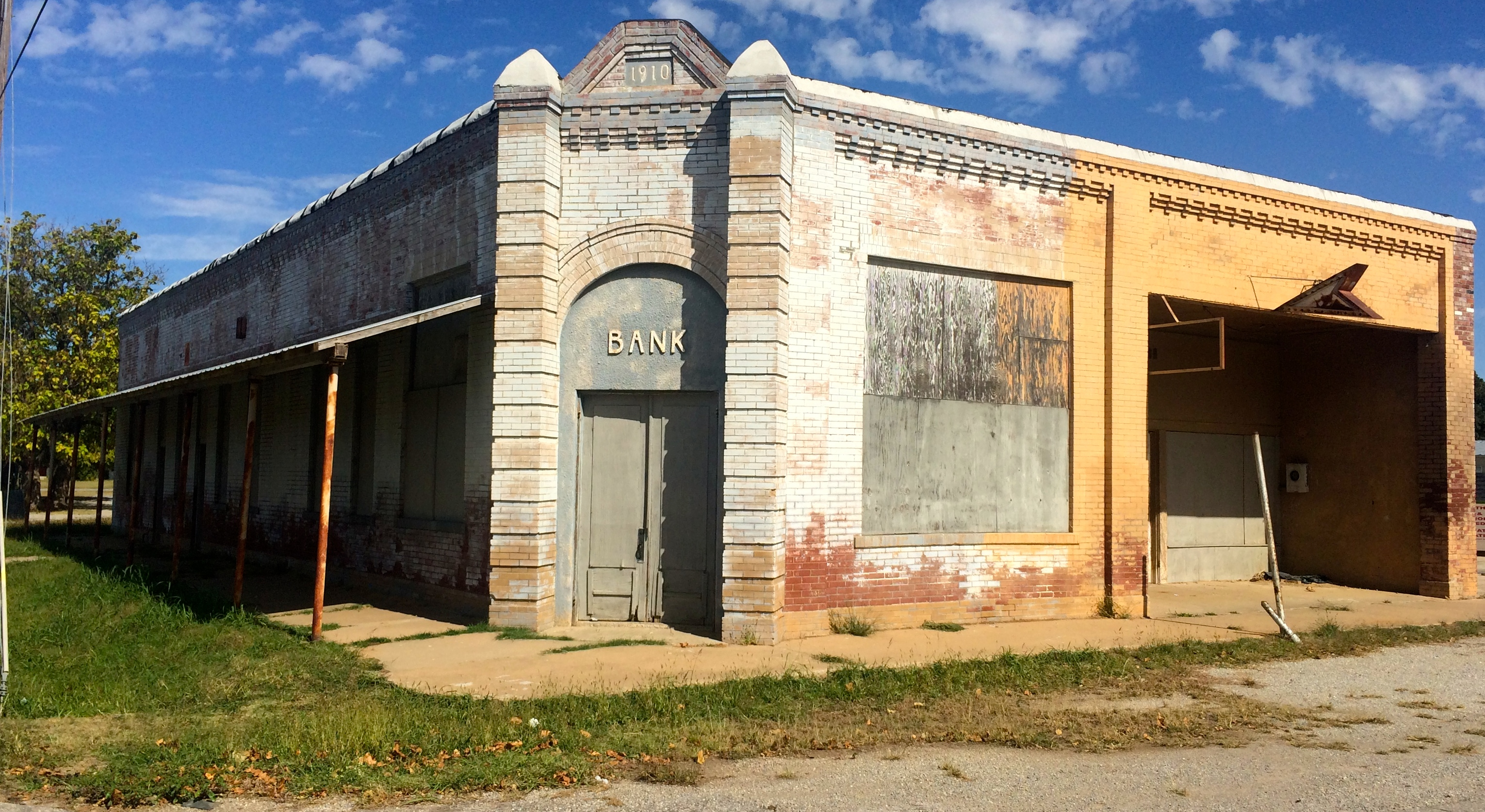 Richardson Building, Northeast of Main and Division Union City